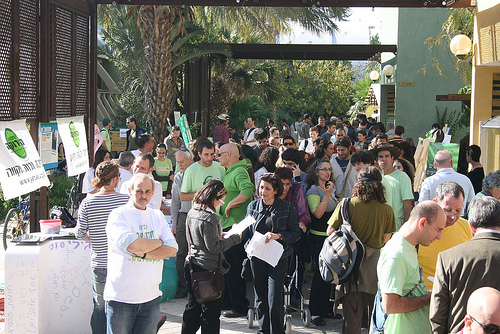 Primaries in the Green Movement party (Israel) 12.12.2008, determining the party's list to the 18'th Knesset